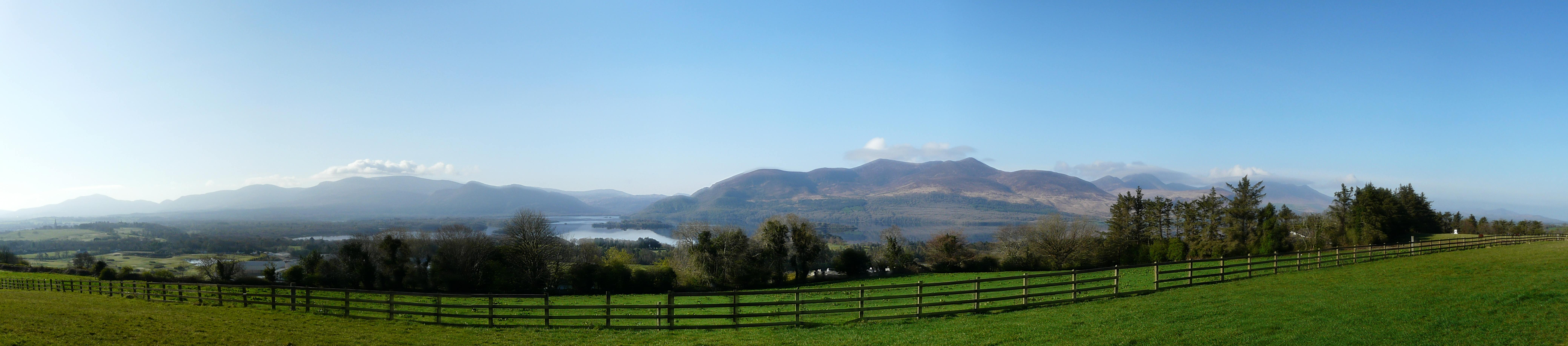 Panoramic view from Aghadoe in Killarney, Ireland. Stitched image using autostitch.